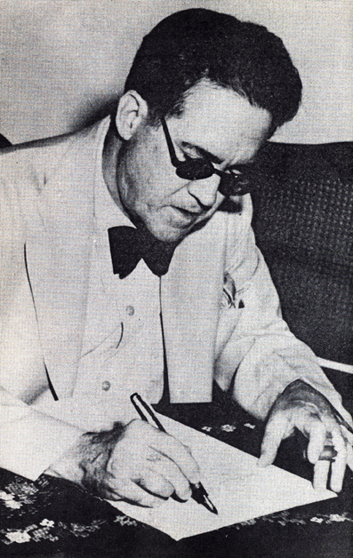 Photograph of Gonzalo Roig at desk